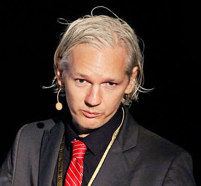 Julian Assange at New Media Days 09 in Copenhagen.